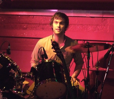 Chris Tomson, performing with Vampire Weekend in Hamburg